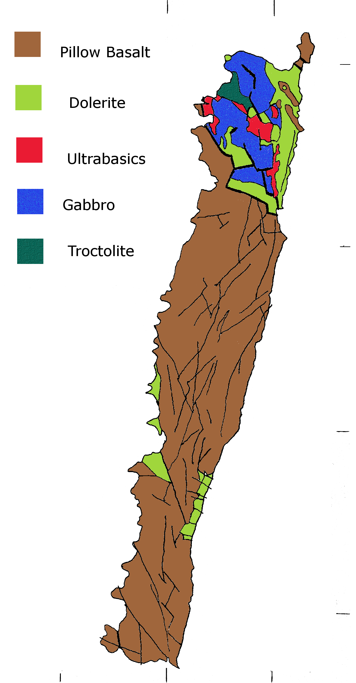 Geological map showing rock types